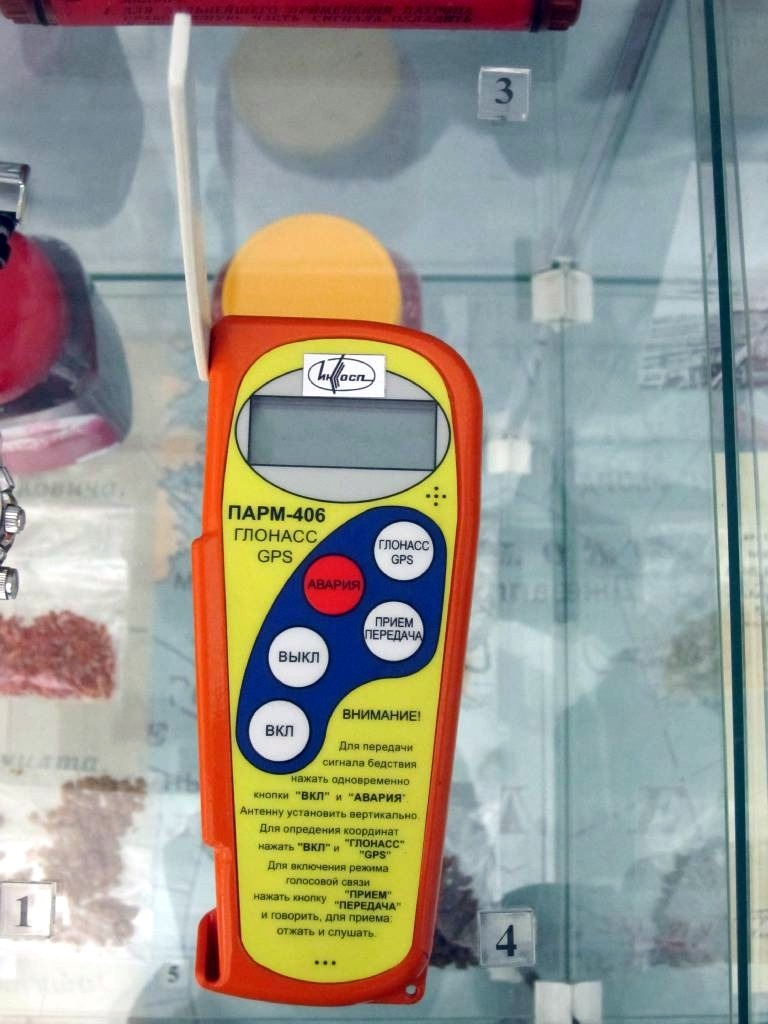 ПАРМ-406 (PARM-406) Personal Radio Beacon (GPS/GLONASS)